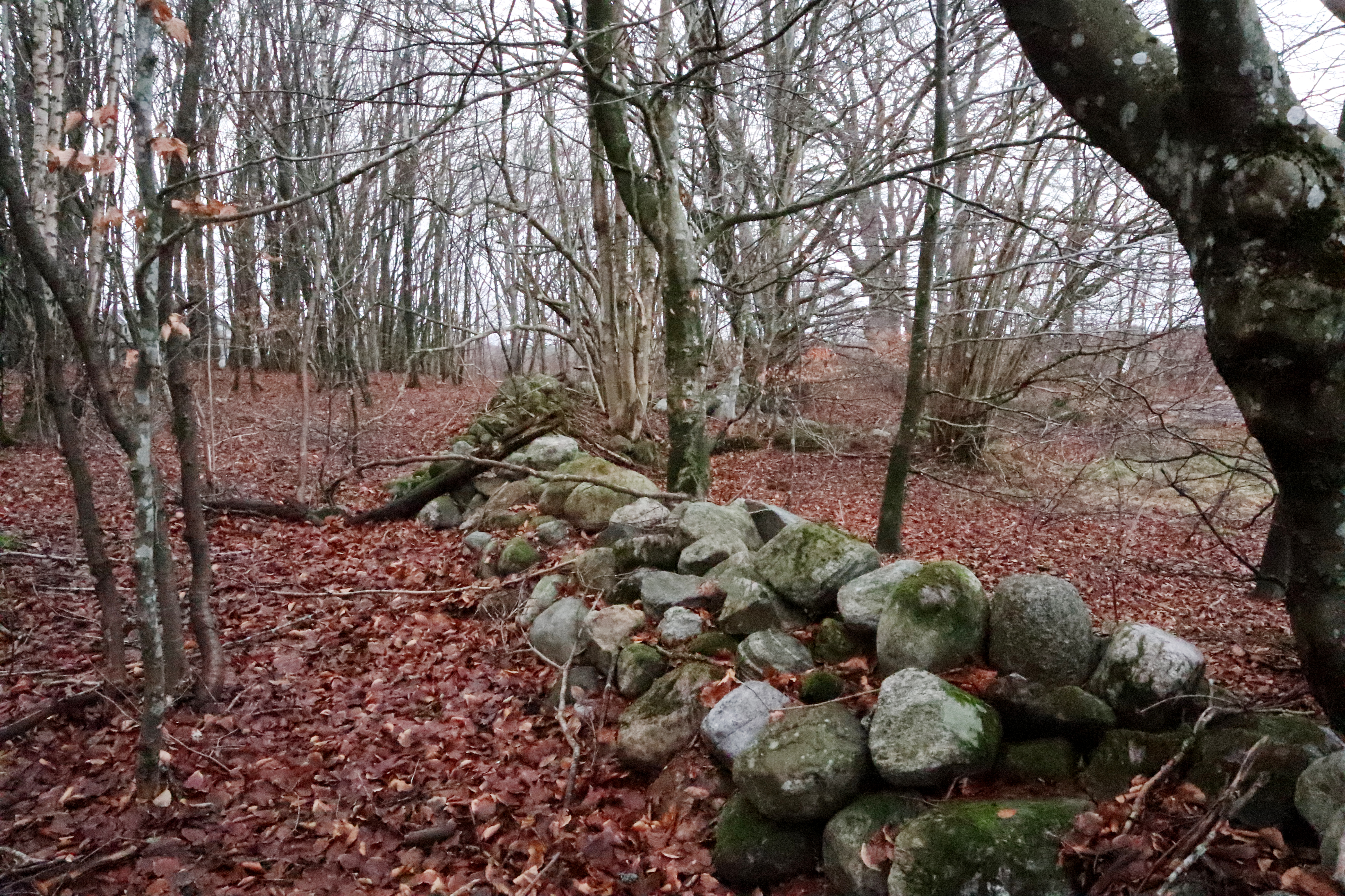 Trees, stone fence, leaves on the ground